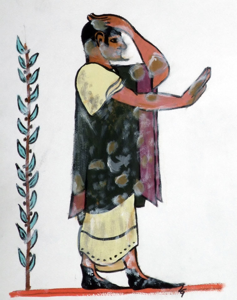 My sketch for Tomba degli Auguri